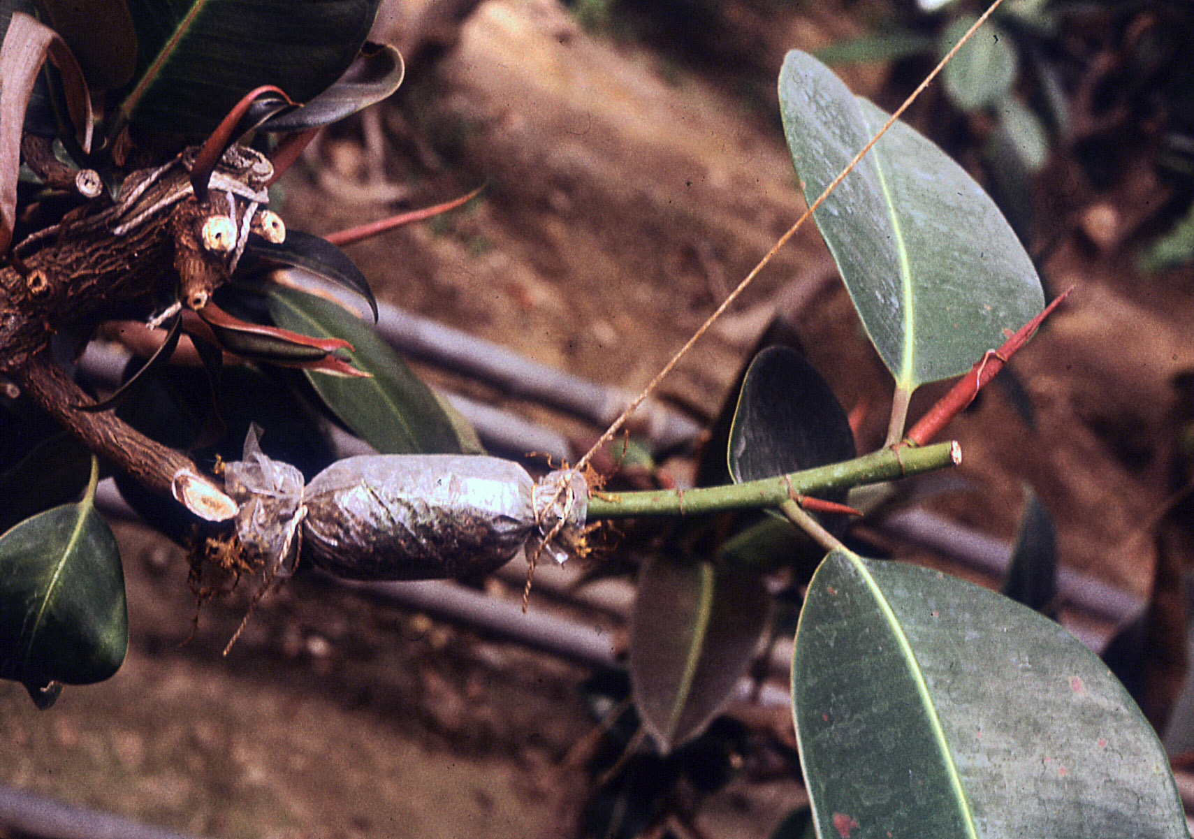 Air layering of Ficus decora